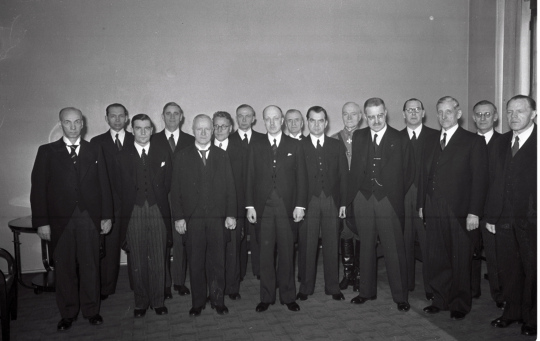 The Finnish government of J.W. Rangell leaves its duties 1 March 1943.